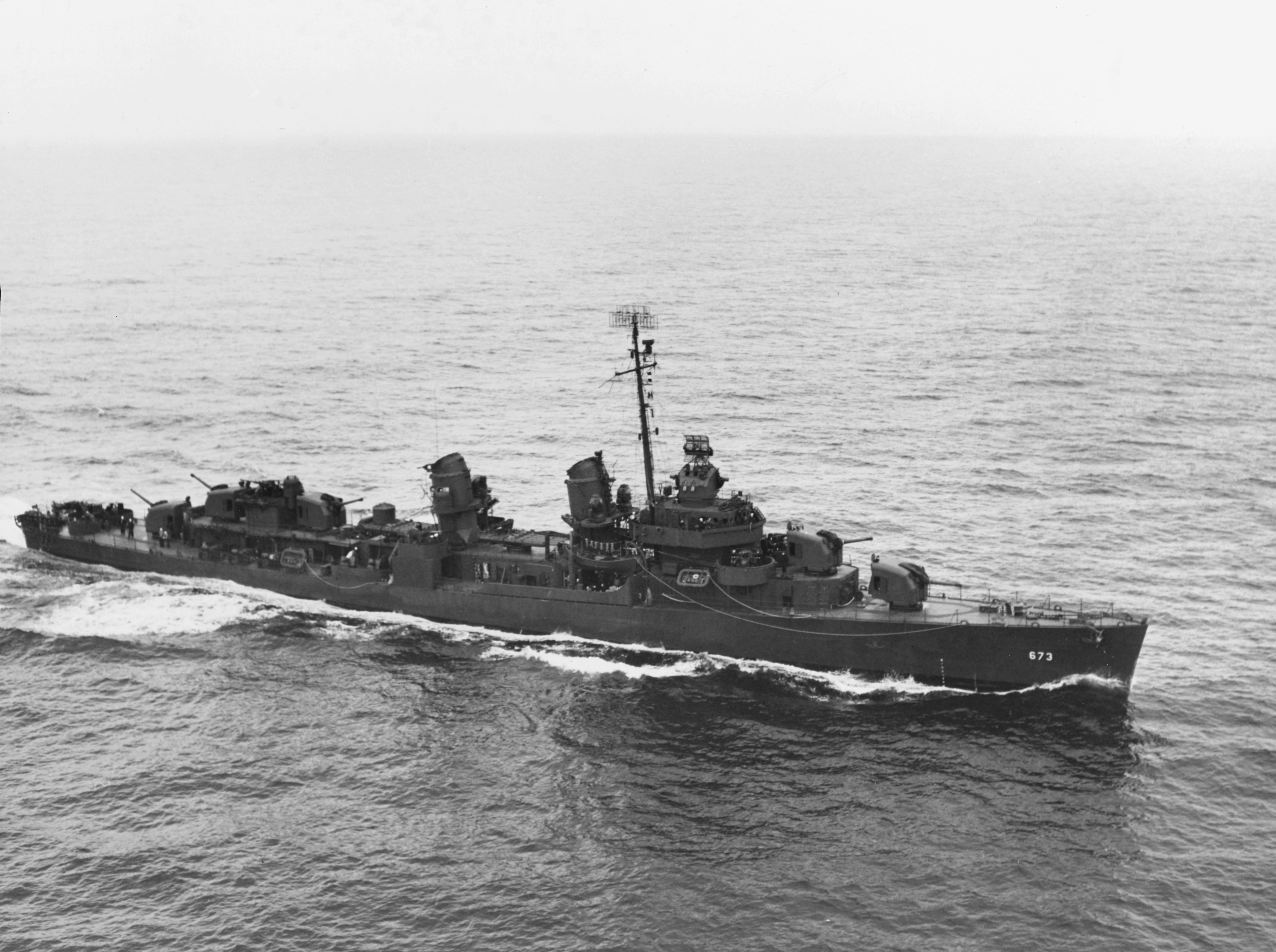 The U.S. Navy destroyer USS Hickox (DD-673) underway at sea, probably circa September 1943, when she was placed in commission.